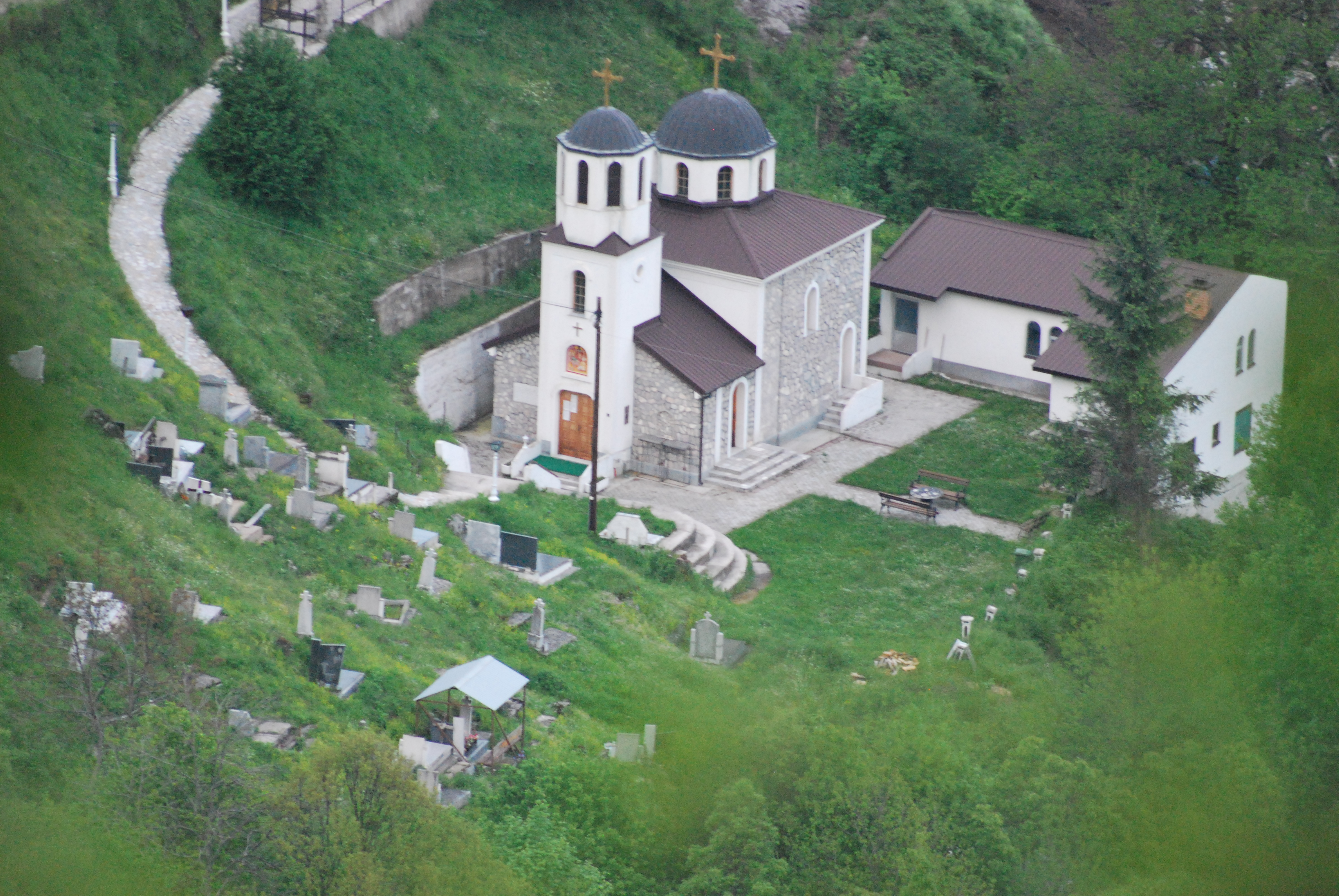 Holy Mother of God Church in Sretkovo, Macedonia